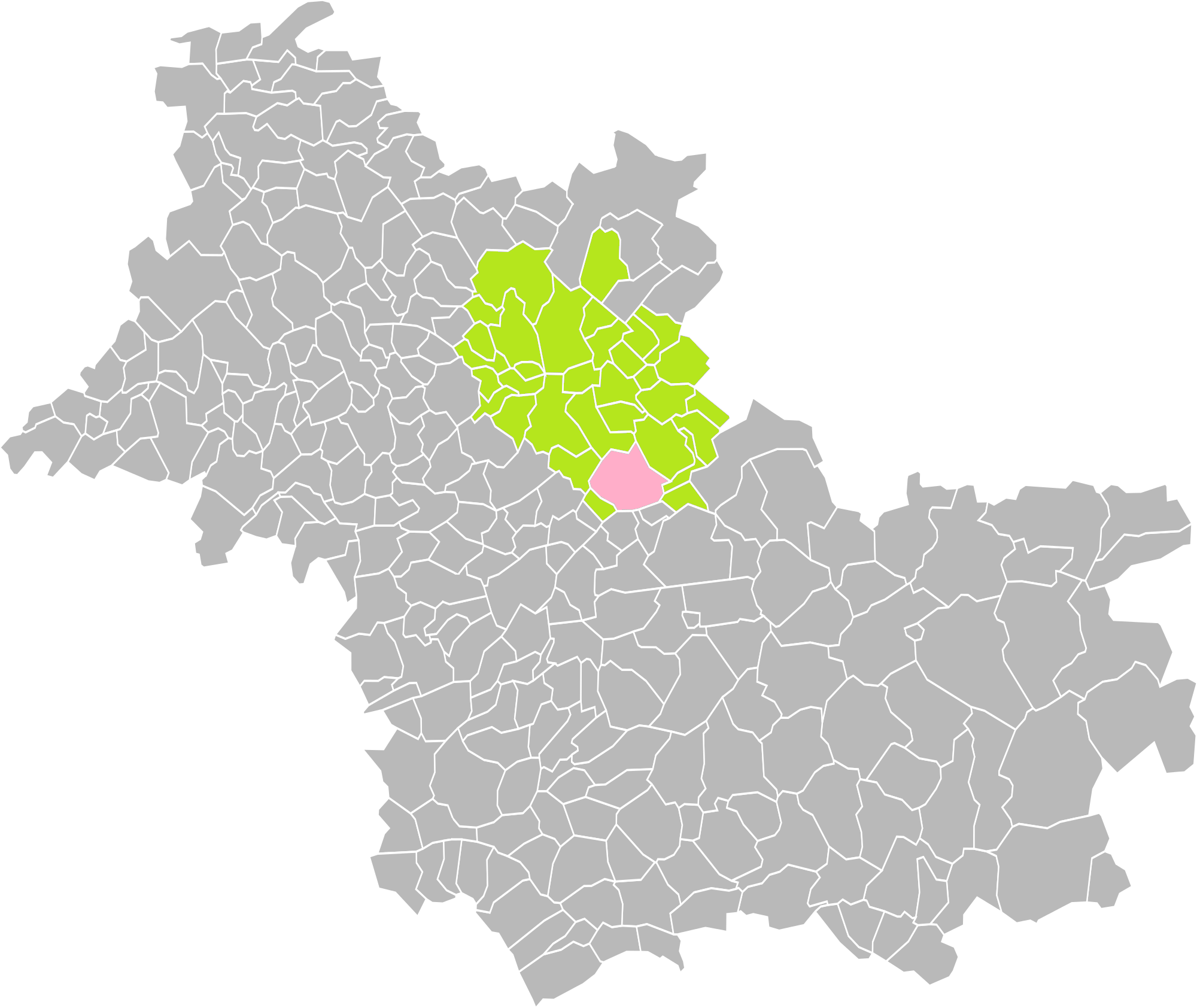 Location of the commune of Suèvres in the Communauté de communes de la Beauce-Val de Loire (Loir-et-Cher)